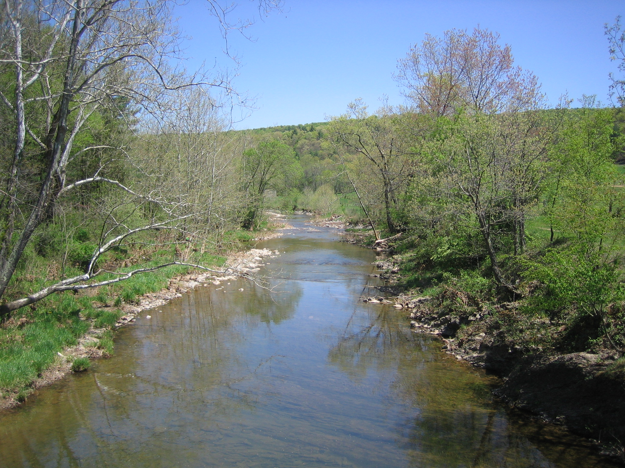 The Little Cacapon River viewed from Little Cacapon-Levels Road (County Route 3/3) near Creekvale, West Virginia, United States.